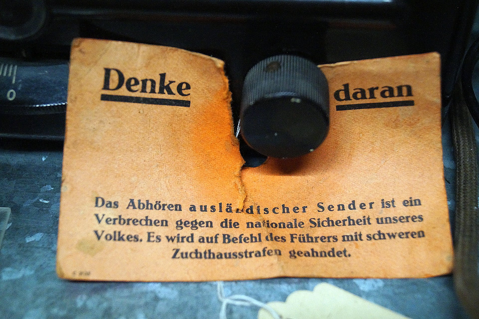 Notice: "Denke daran" on DKE GW 110-240